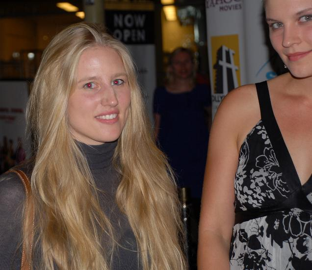 Oct 19, 2007: Sunday Night Arclight Screening For Uwe Boll's New Movie 'Postal'